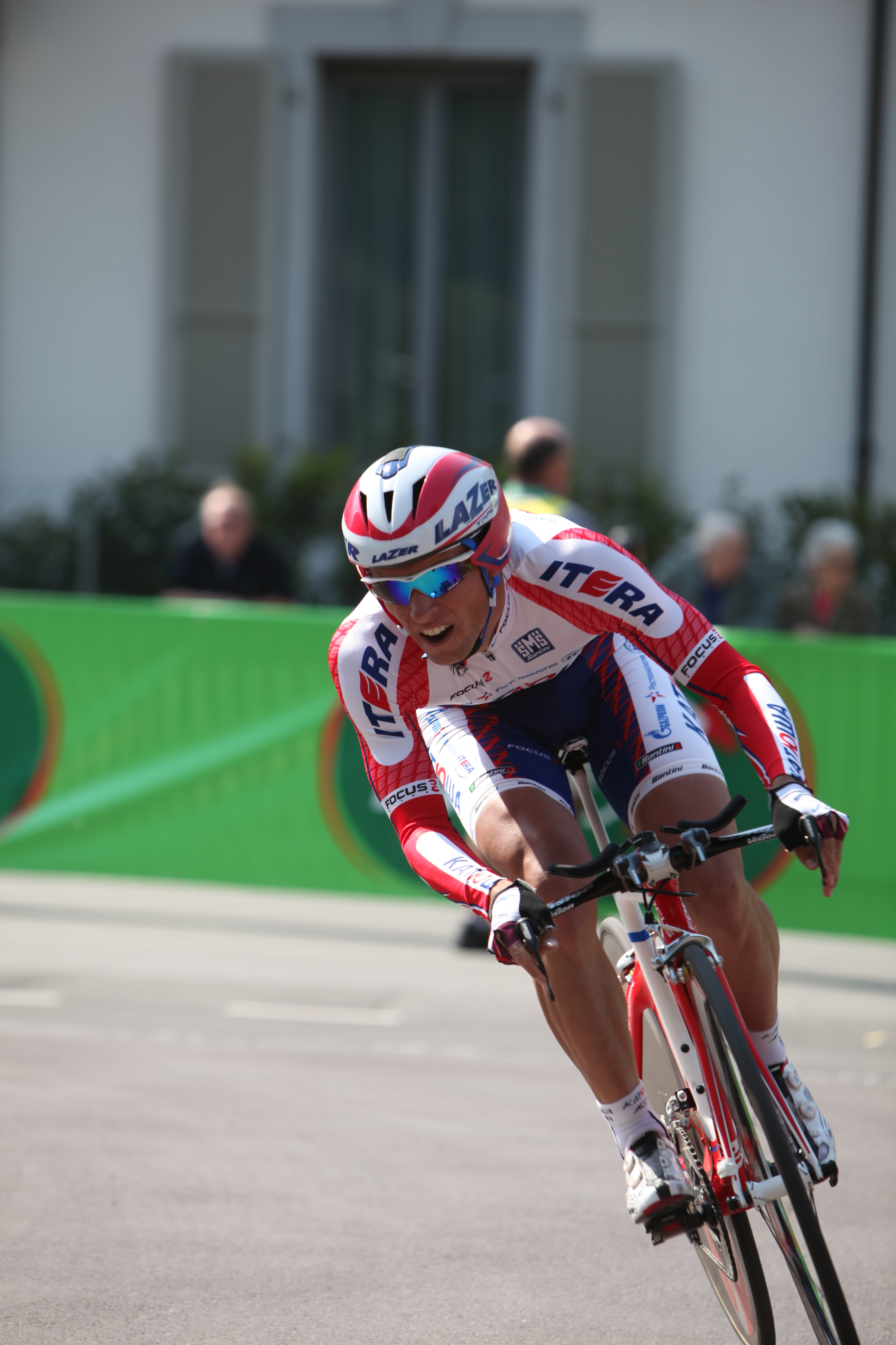 Mikhail Ignatyev at the prologue of the Tour de Romandie 2011